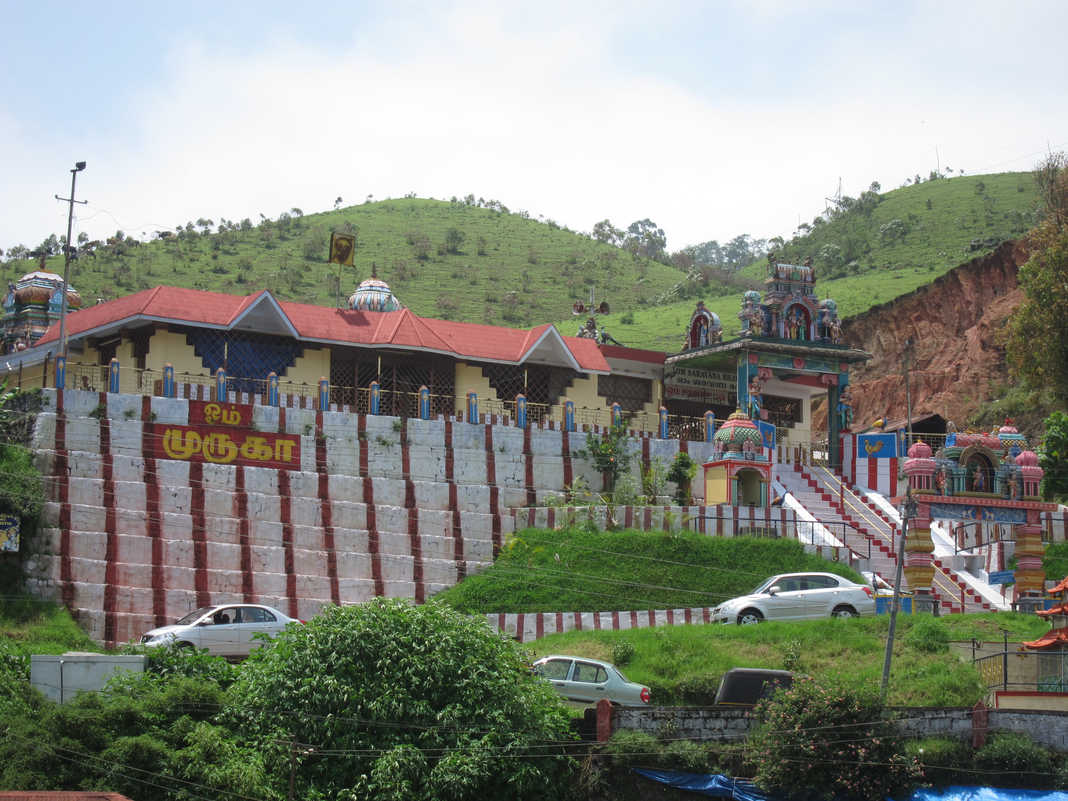 Munnar - Om Saravana Bhavan, Idukki District ഓം ശരവണ ഭവൻ, മൂന്നാർ, ഇടുക്കി ജില്ല